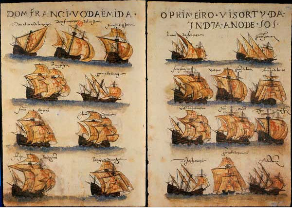 Depiction of the 7th Portuguese India Armada (1505 fleet led by Francisco de Almeida) from the Livro de Lisuarte de Abreu, c.1565 (held by Pierpont Morgan Library, M.525)